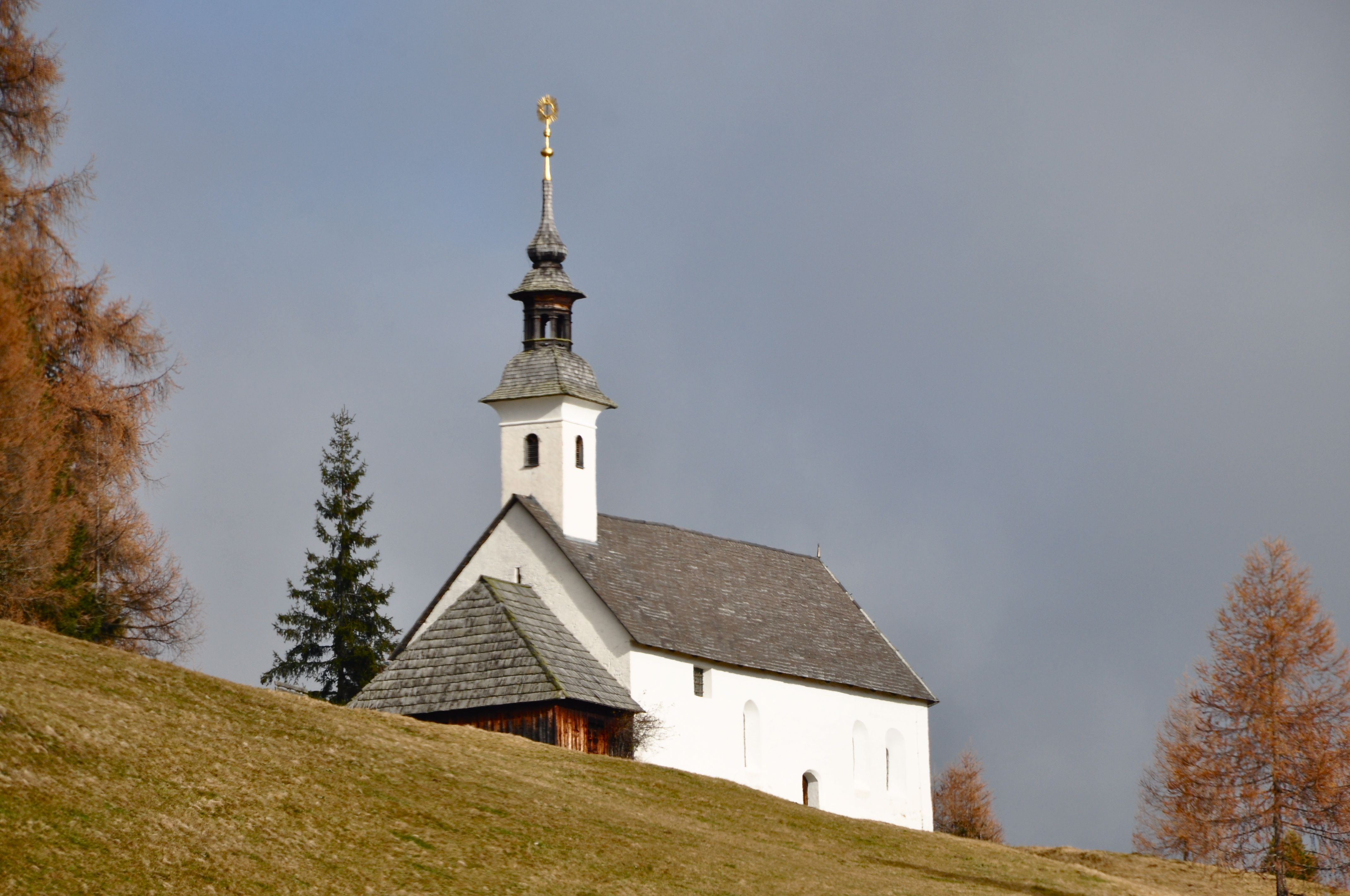 Subsidiary church Holy Anna close to the mountain village Saint Lorenzen, municipality Reichenau, district Feldkirchen, Carinthia / Austria / EU